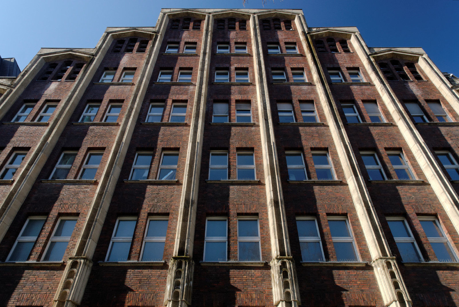 Facade Martin-Luther-Platz 26 in Düsseldorf-Stadtmitte, Germany